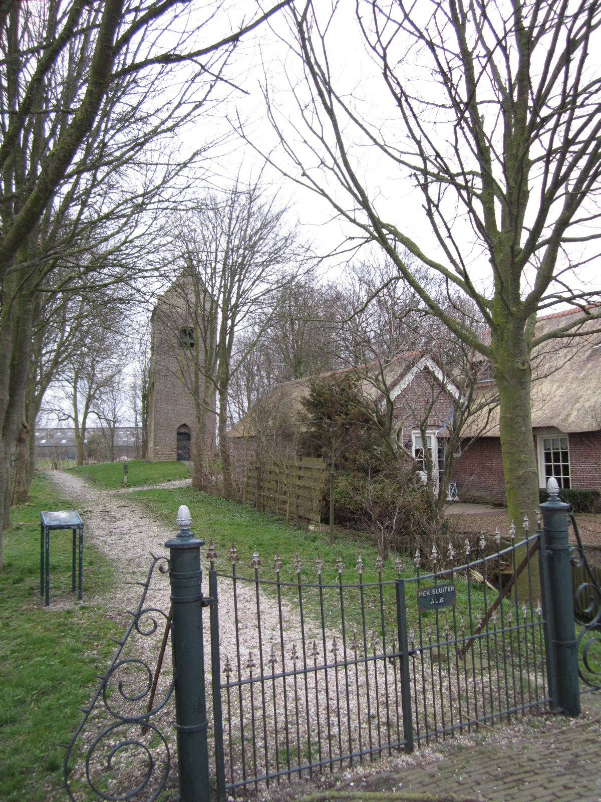 Miedum (county Friesland, The Netherlands). Entrance to churchtower and churchyard.